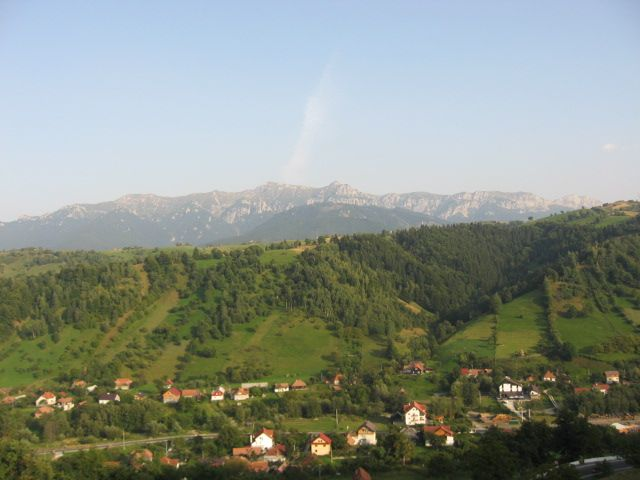 Courtesy of